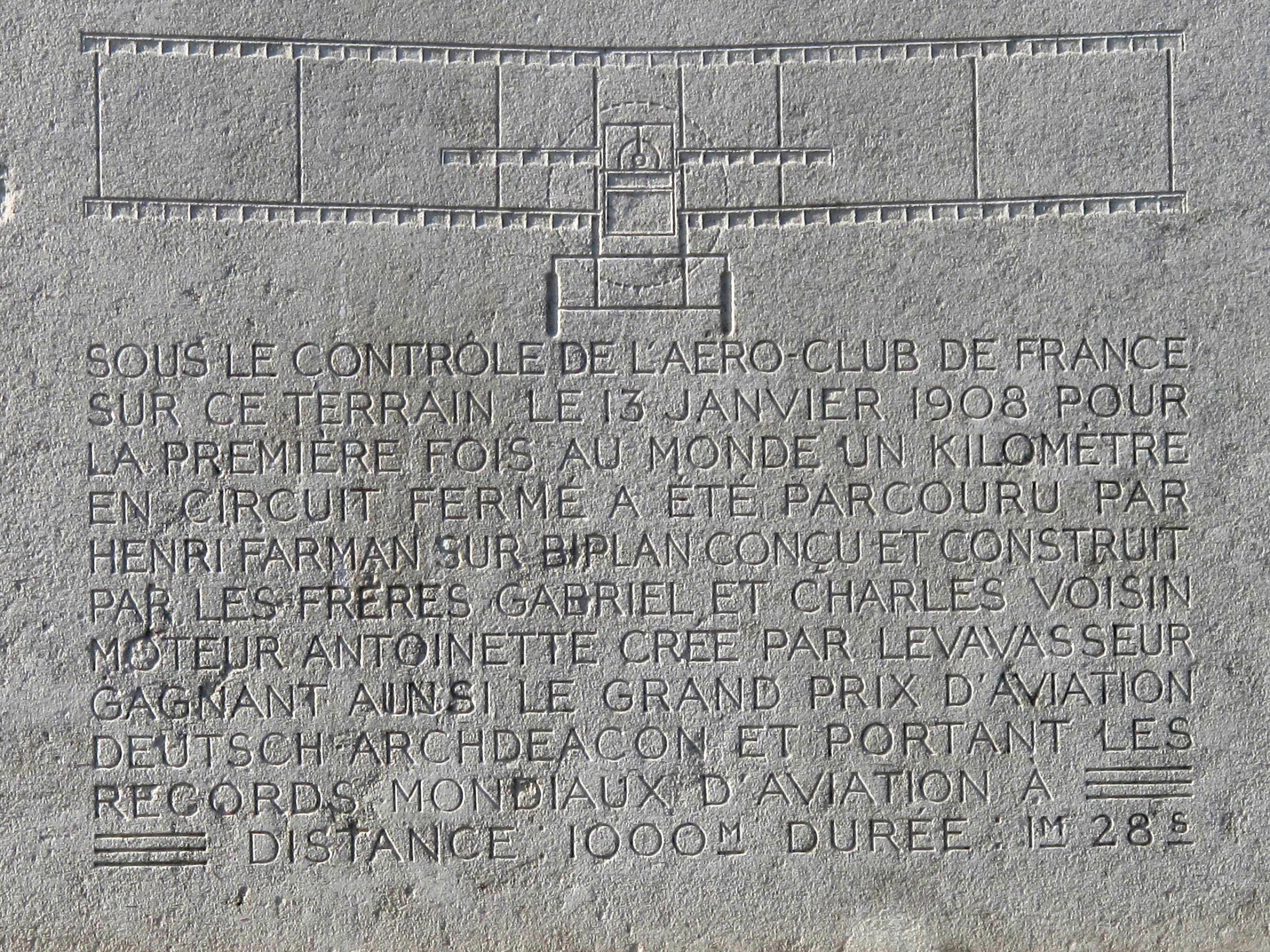 Memorial to Henry Farman for the first flight with a complete circuit of 1 kilometre on january 13, 1908. Rue Henry-Farman, in front of the heliport, Paris 15th arr.